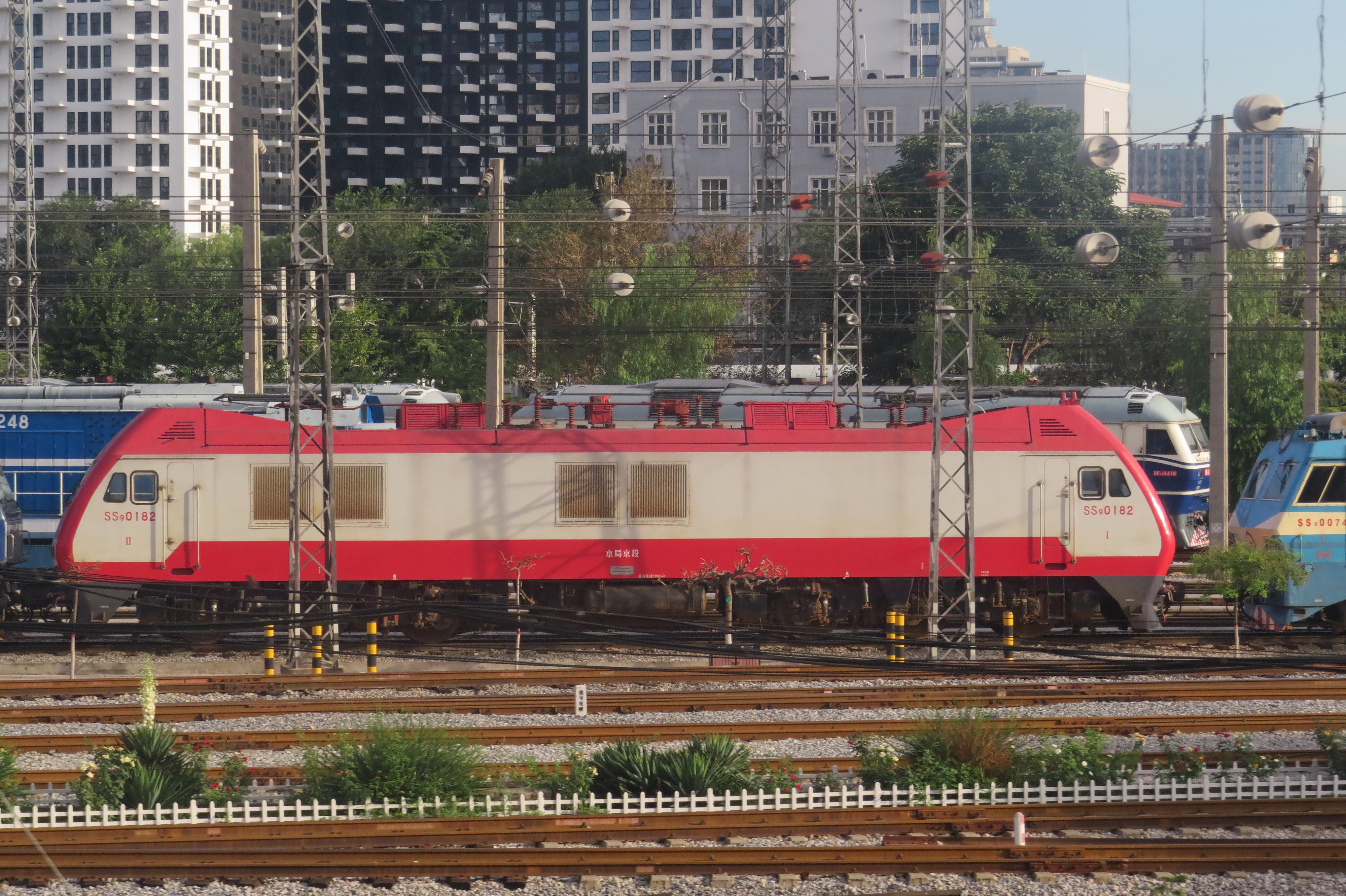 Seen from D904. This locomotive was involved in the 4-28 accident in 2008, and I thought that it was damaged, like DF11-0400, but it's still alive. Note the DF11 on the back.